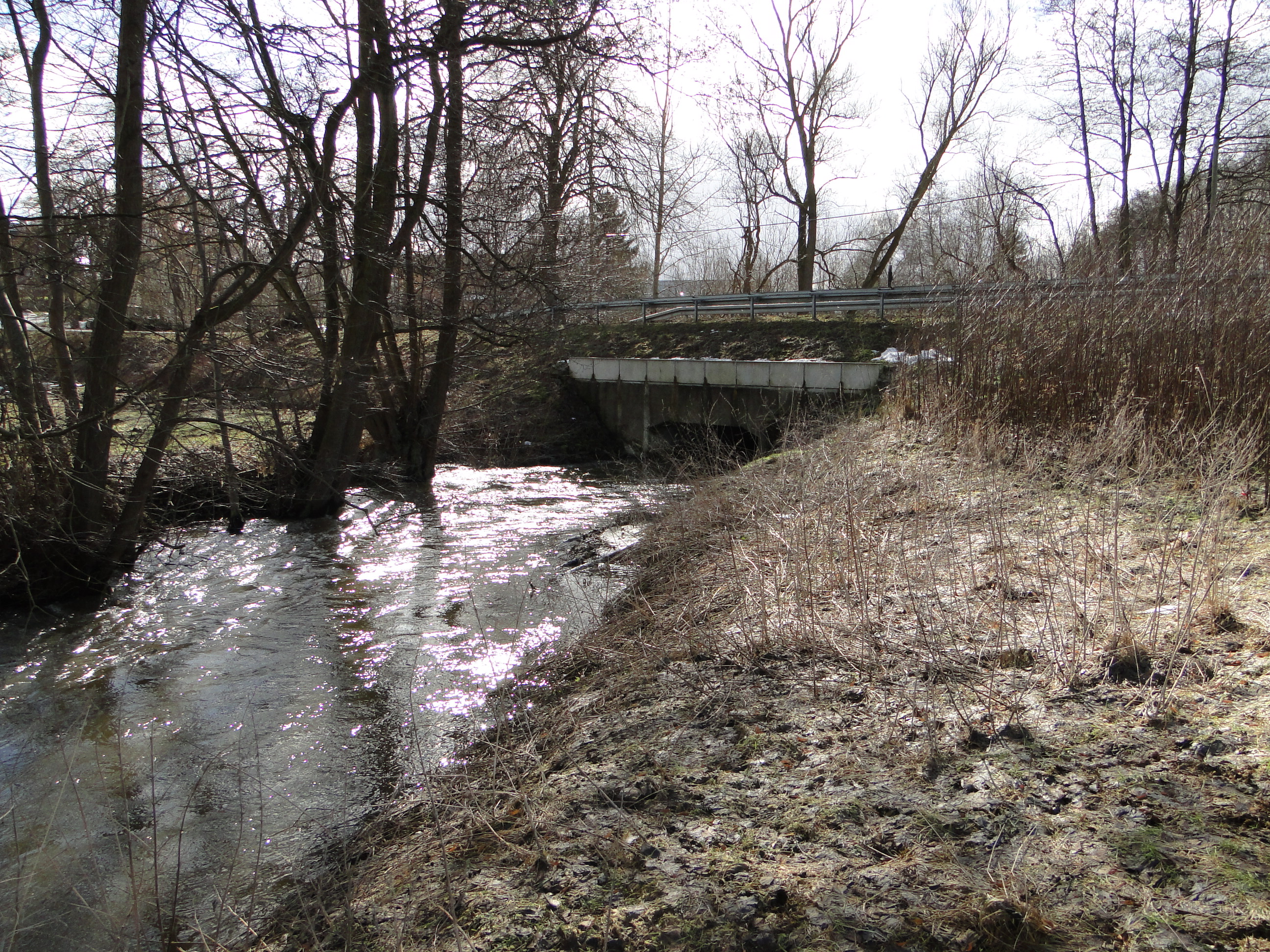 Road bridge across the Maurine river in Groß Siemz, disctrict Nordwestmecklenburg, Mecklenburg-Vorpommern, Germany